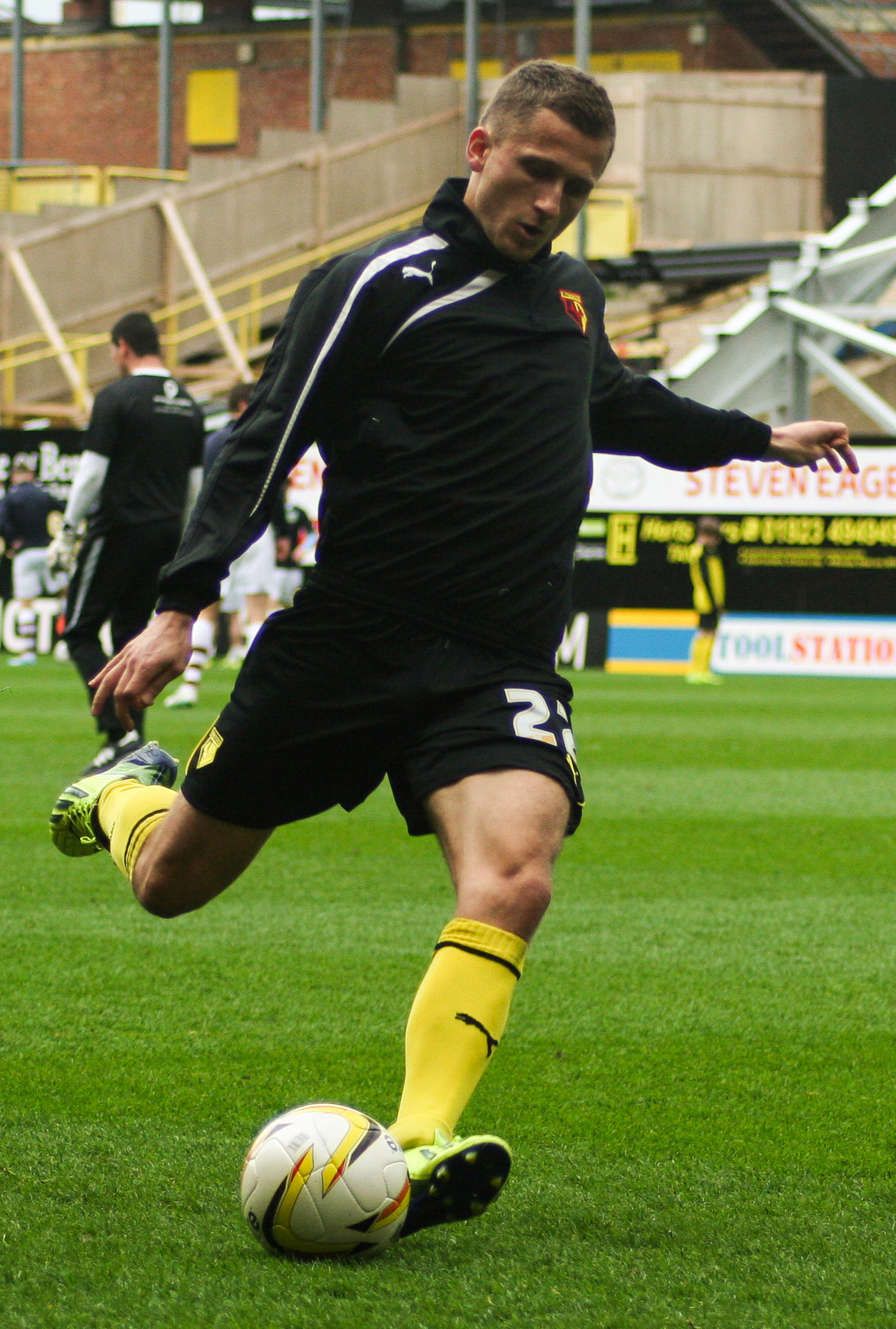 Almen Abdi before the match vs Burnley on 5 April 2014